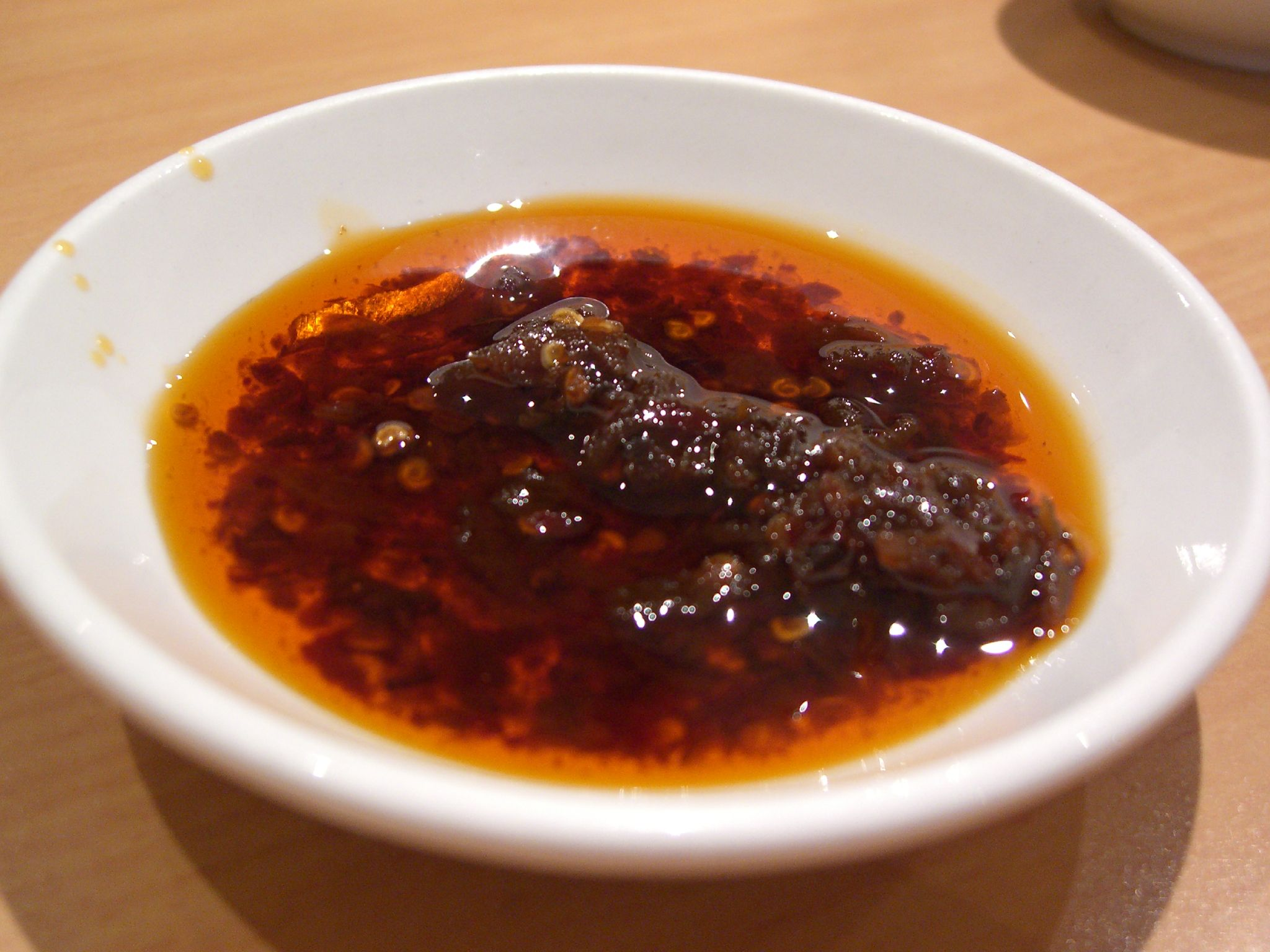 Chilli Oil 辣油 - David & Camy Spicy, but nothing to write home about. I never remember the prices when I eat here! :P generally though, the prices are quite cheap. - Fried Rice Cake - Chinese Cabbage in Cream Sauce - Vegetarian E-fu Noodles - David & Camy - Boiled Dumplings - Xiaolongbao 小笼包 - Chilli Oil David and Camy Noodle Restaurant 596 Station St 3128 First visit: - Steamed Pork Dumplings - Corn Flour Steamed Buns - Sweet Potato Noodle Stir-Fried with Pork - Shanghai Fried Noodle - Red Bean Pancake Second visit: - David and Camy Noodle Restaurant Shopfront - Wonton Soup - Salt and Pepper Chicken Ribs - Chive Puffs